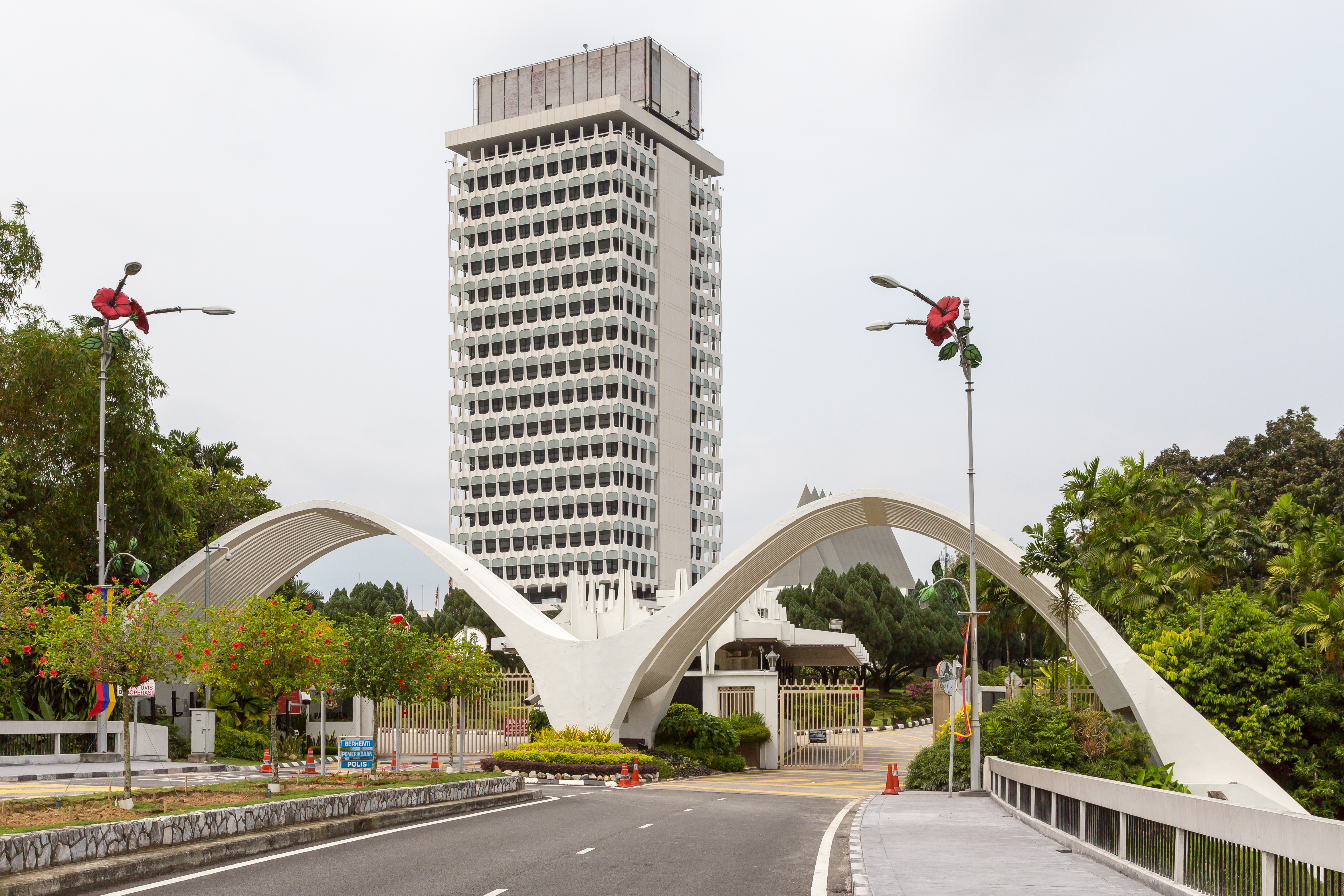 Kuala Lumpur, Malaysia: Bangunan Parlimen Malaysia (Parliament)